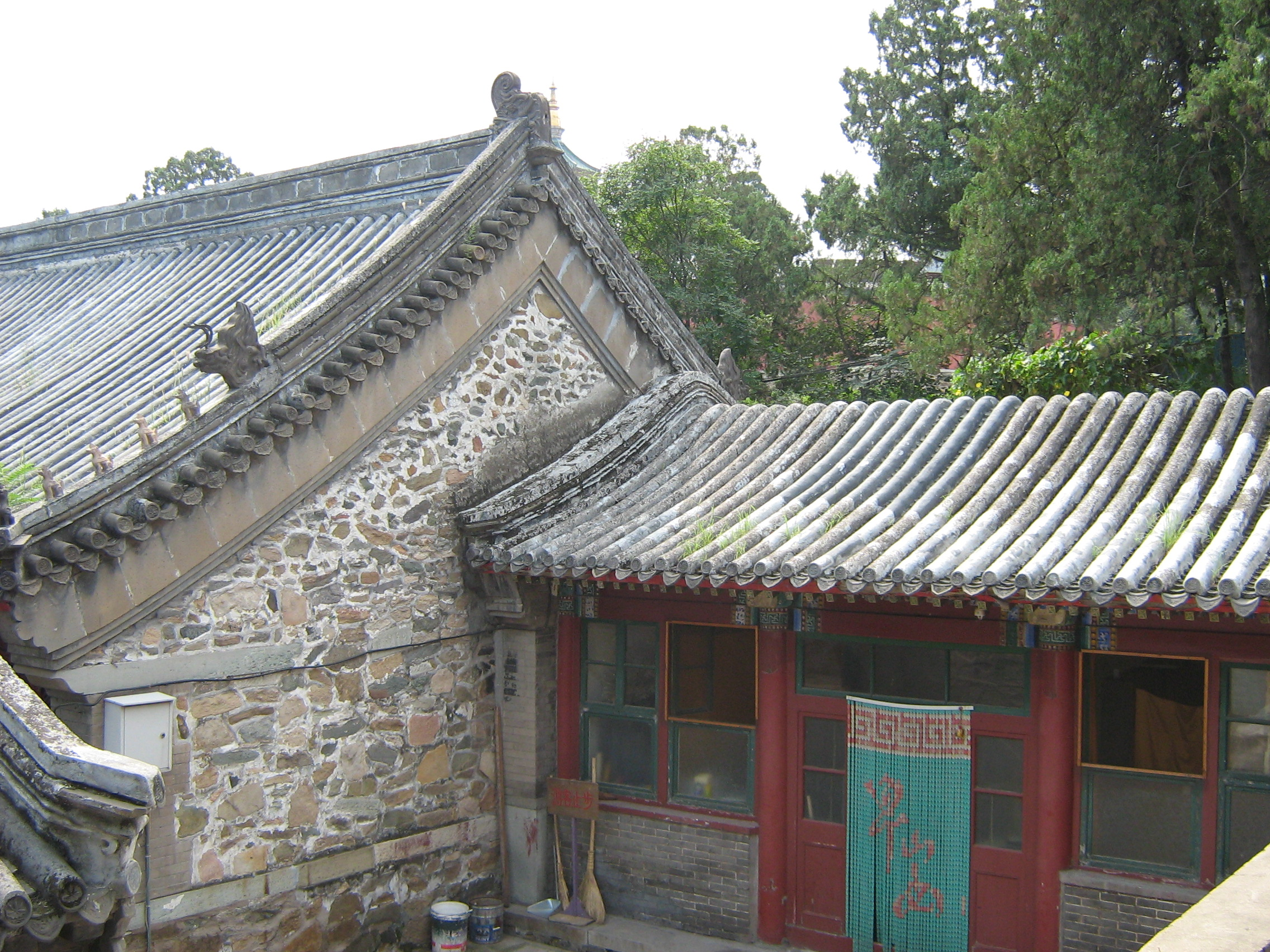 Erfang in Sanshan An, Badachu, Beijing